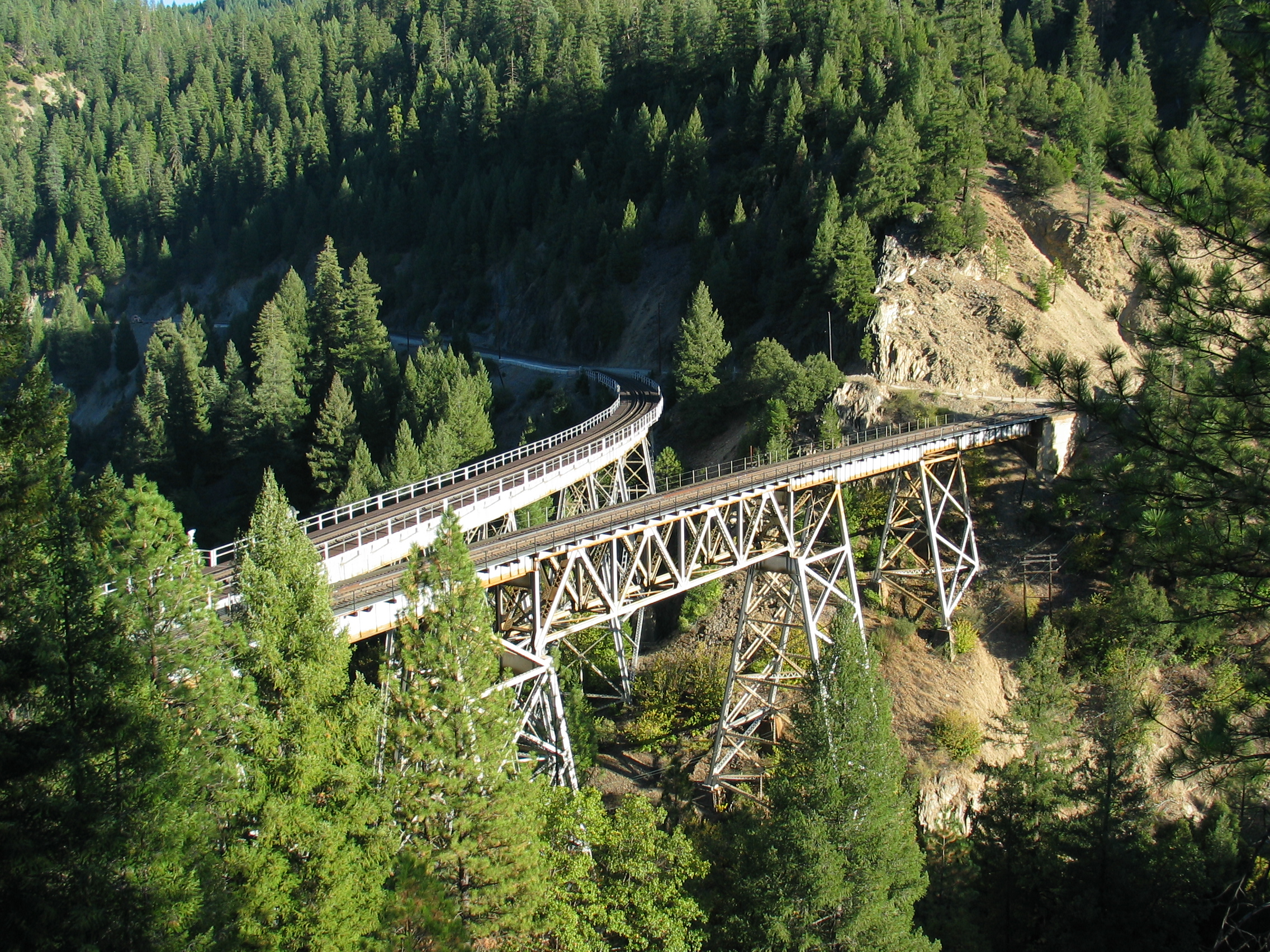 The Keddie Wye, near Quincy, California. Shot from State Route 70.